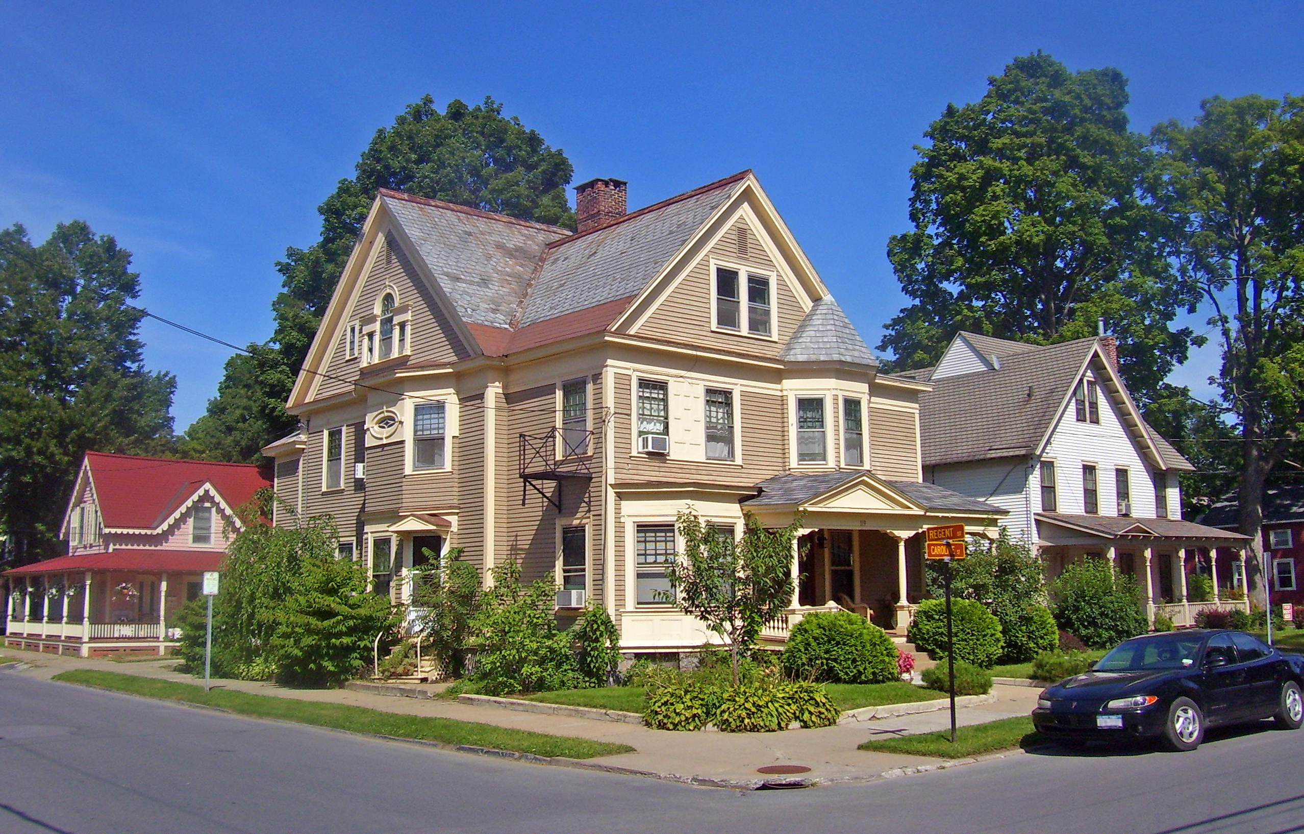 Houses at northeast corner of intersection of Caroline and Regent streets in the East Side Historic District, Saratoga Springs, NY, USA. Central house was home of architect R. Newton Brezee, who designed many houses in the city.